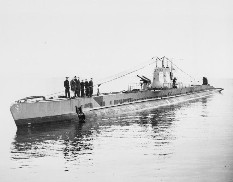 The Polish Navy in the Second World War The Polish submarine ORP Wilk (Wolf) in a British port, probably Rosyth. She arrived in Britain on 20 September 1939, and was used as a training boat in the early part of the war before being decommissioned. The censor has obscured her pennant number.